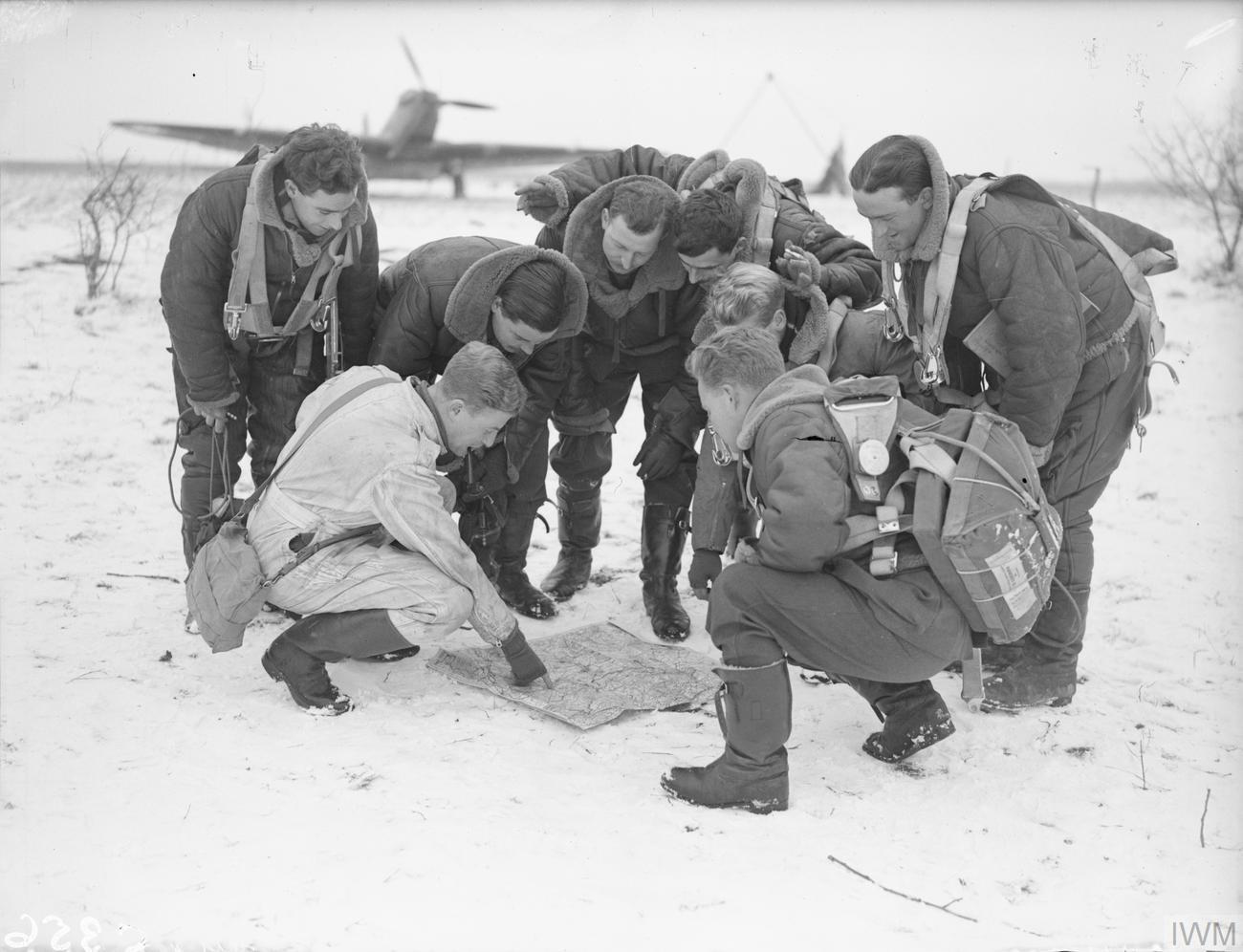 Royal Air Force- France, 1939-1940 Fairey Battle crews of No. 12 Squadron RAF check their maps on the snow-covered airfield at Amifontaine.